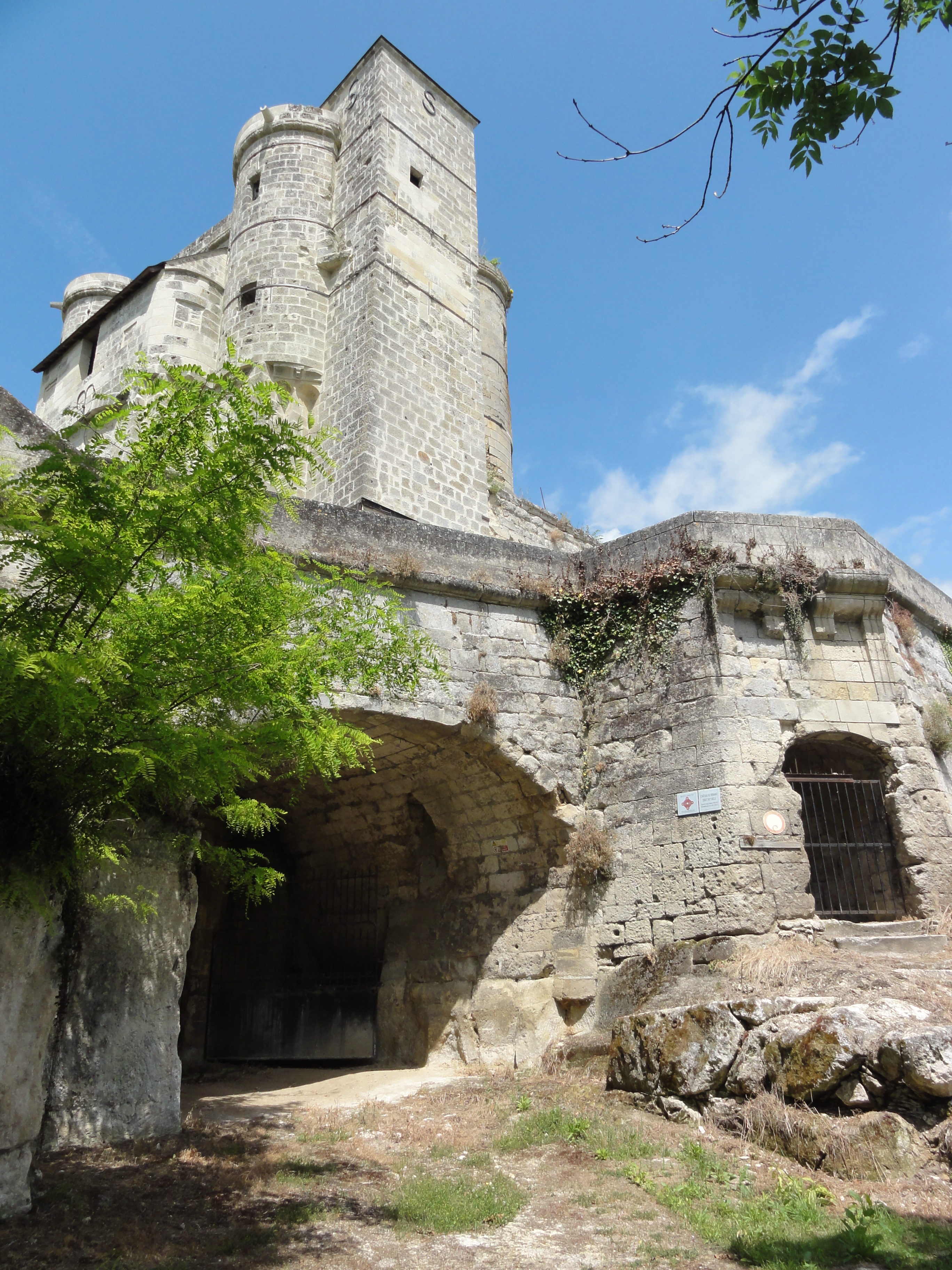 Château de Pernant, Monument historique